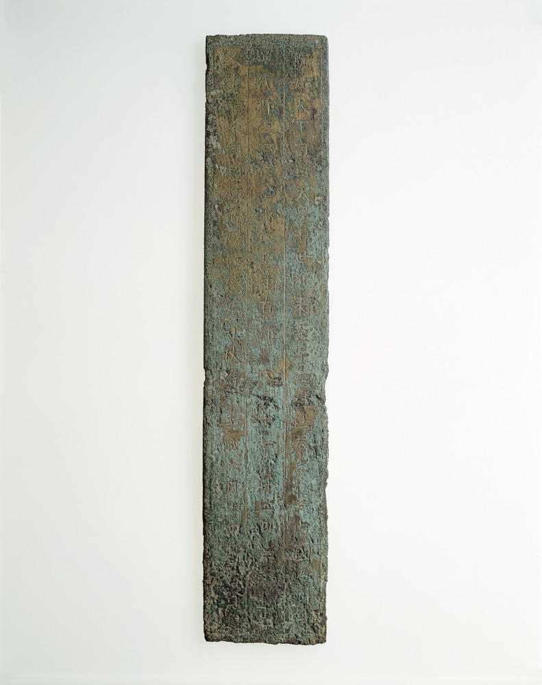 The epitaph of Yamashiro no Masaka in Nara period. A collection of Nara National Museum (Important Cultural Property of Japan).